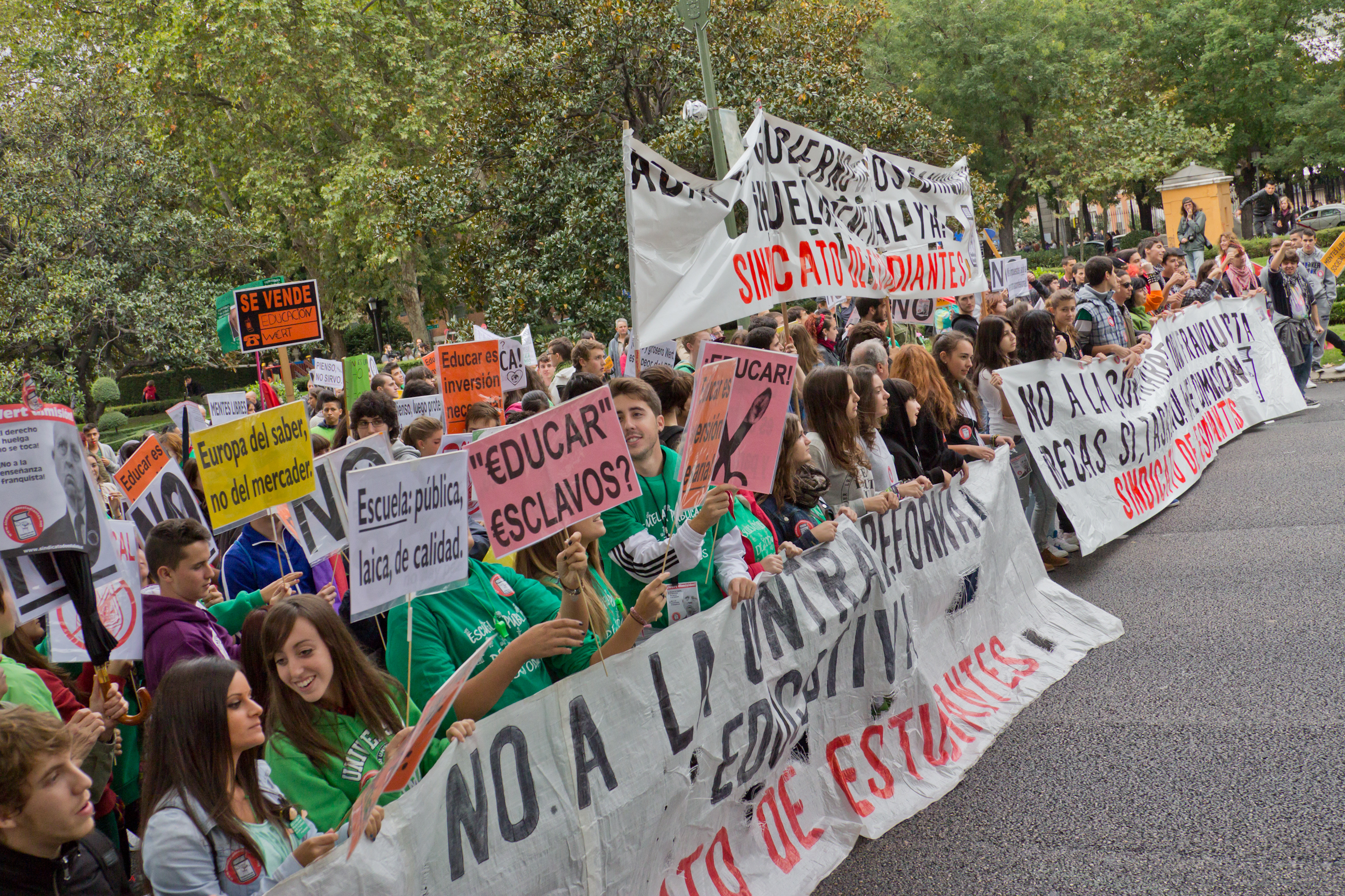 Demonstration in Madrid against cuts in education and education law reform.